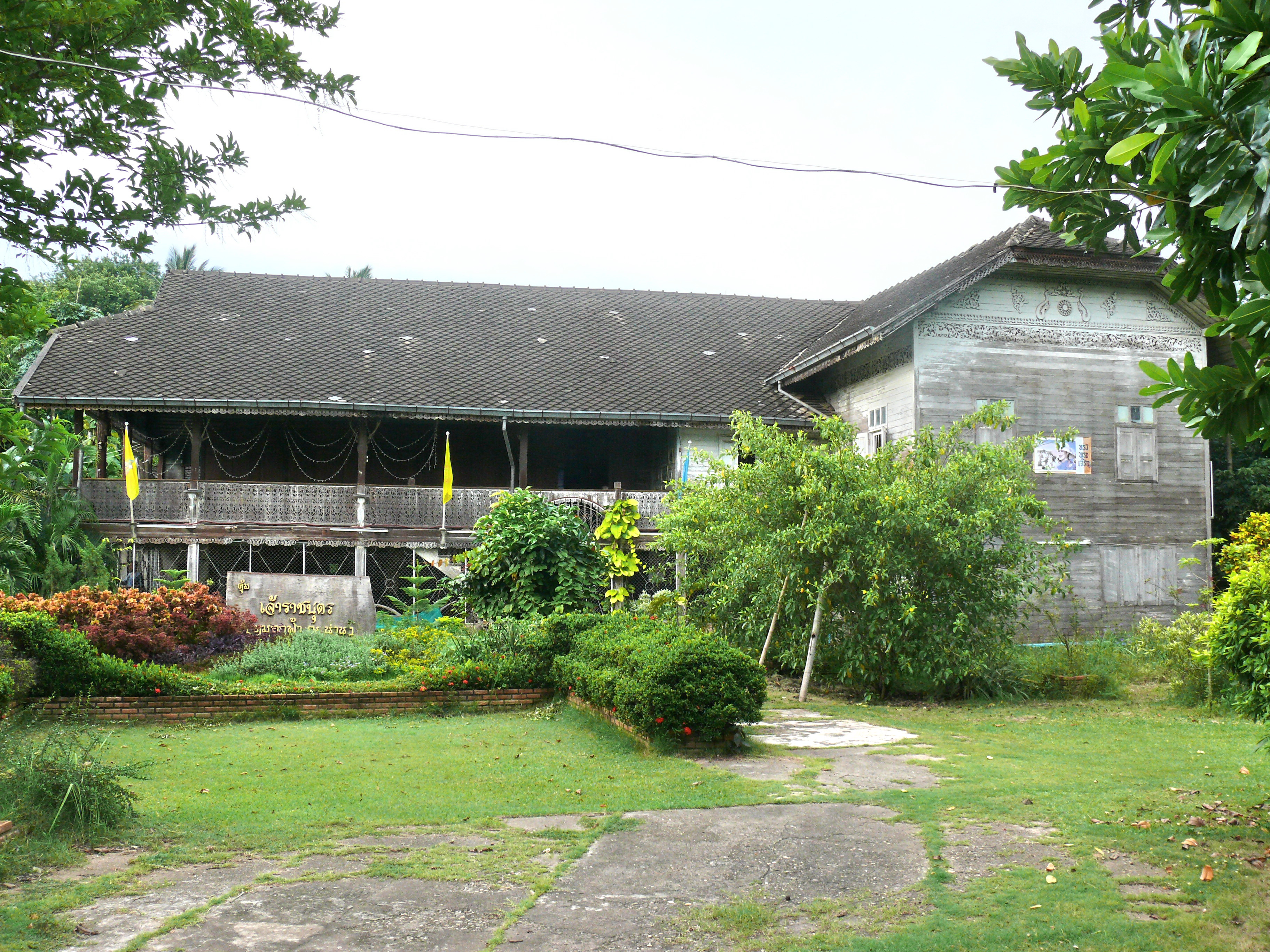 King Nan's Teak House, Nan, Thailand